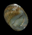 Photo of an apertural view of a shell of Clithon faba.